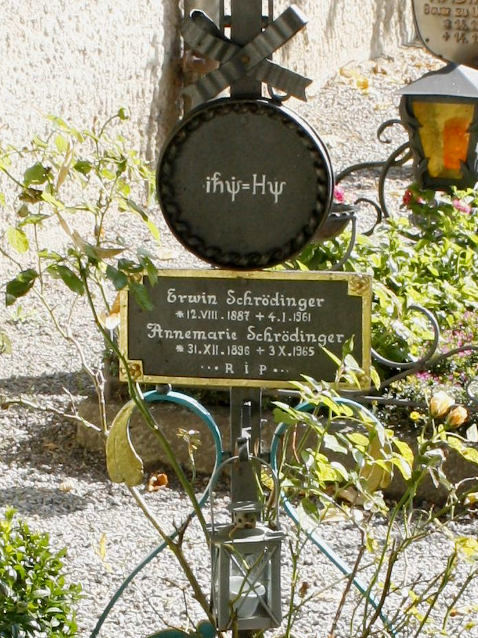 Grave of physicist Erwin Schrödinger in Alpbach, Tyrol (detail)